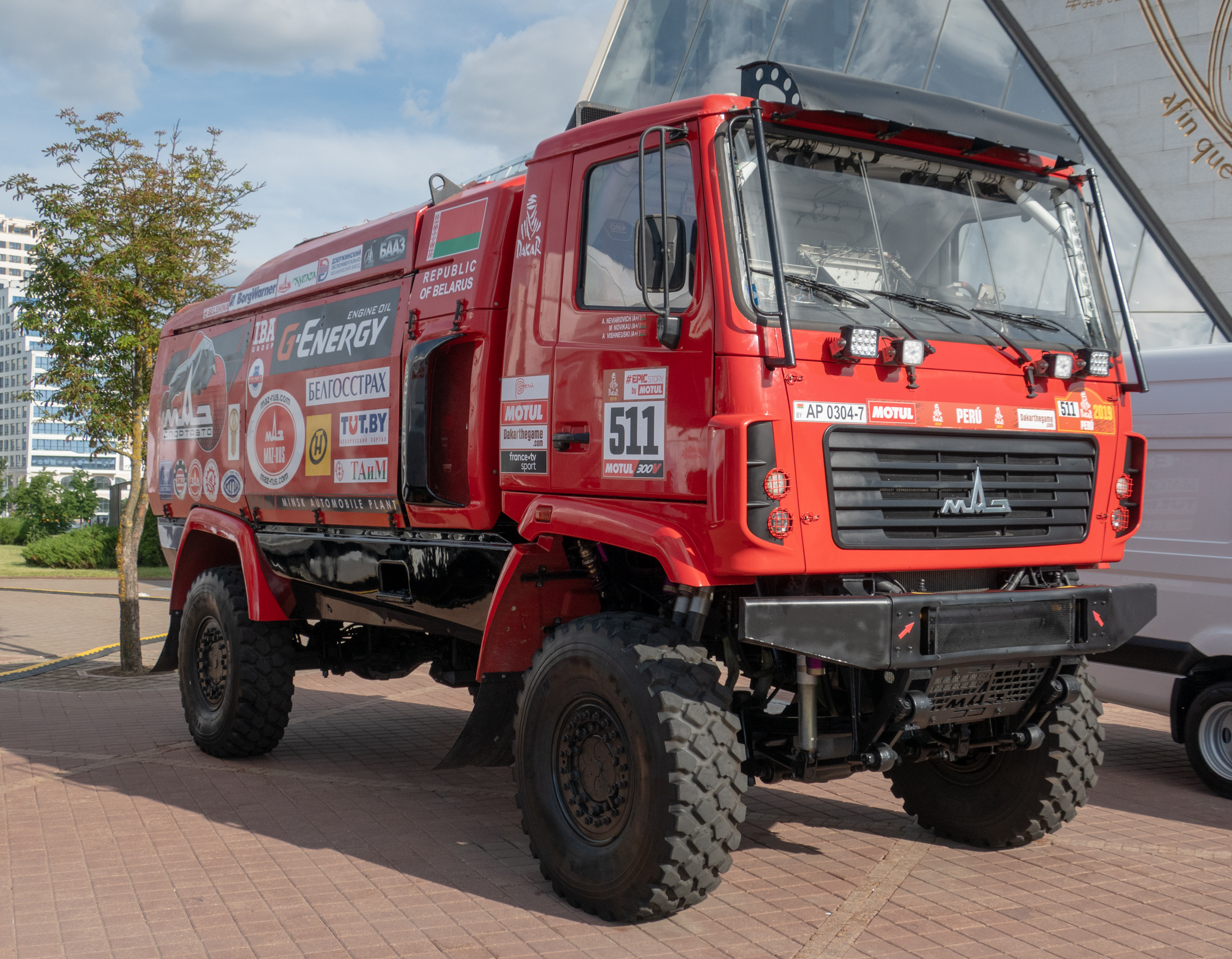 MAZ-5309 truck for Dakar rally (No 511). Photo taken at BAMAP-2019 exhibition (Minsk, Belarus)